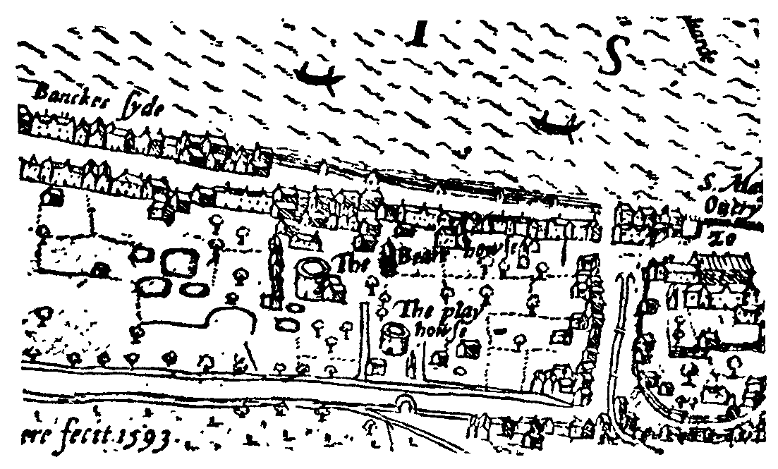 Bankside - the Bear Garden and the Rose Theatre - Norden's Map of London, 1593